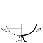 GIF - Gordion cup